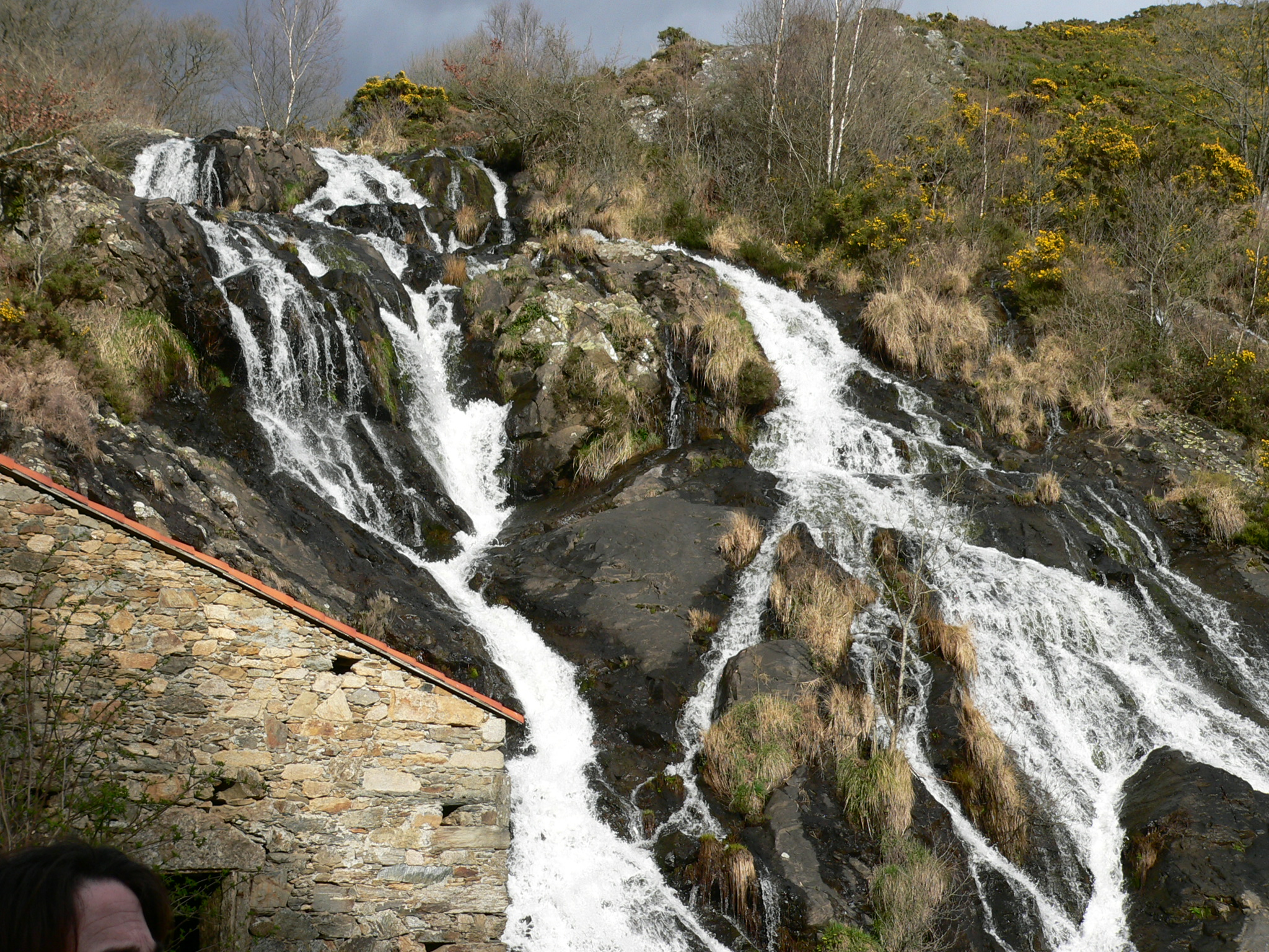 Brañas waterfall in Furelos River, Toques, Galicia, Spain.